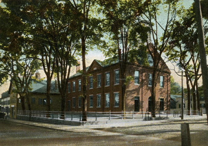 Original Biddeford High School circa 1910. Biddeford, Maine.